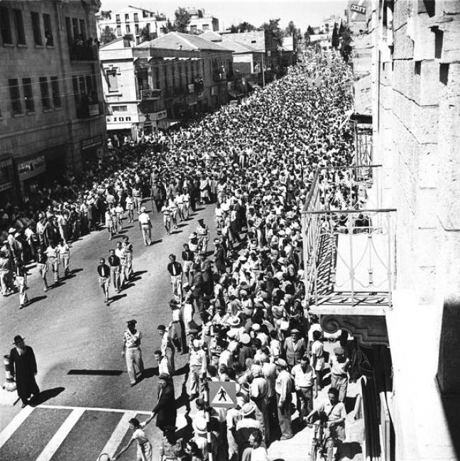 Ben-Zion Meir Hai Uziel's funeral.